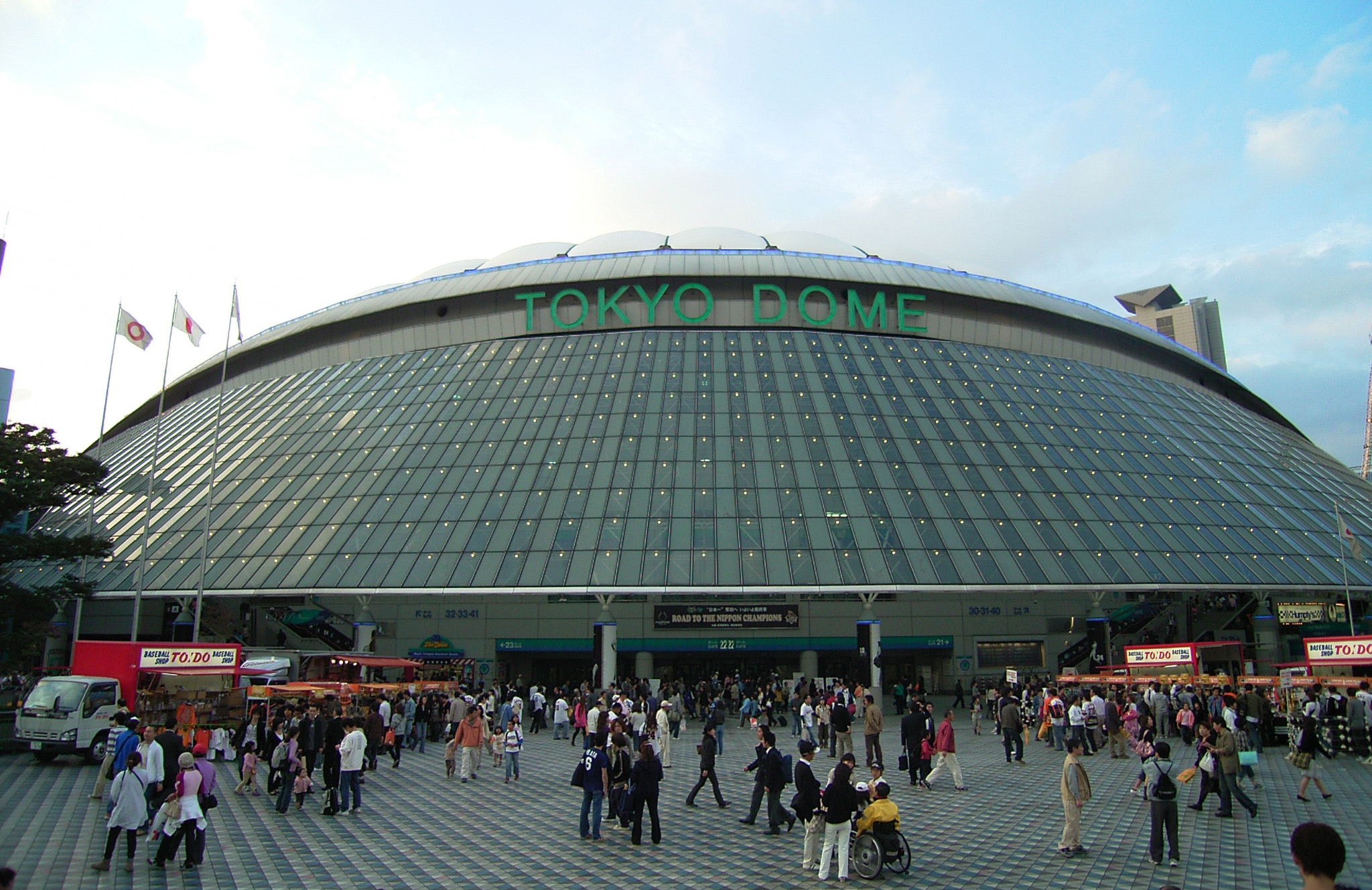 Tokyo Dome Central Baseball “Climax series 2007”The second stage